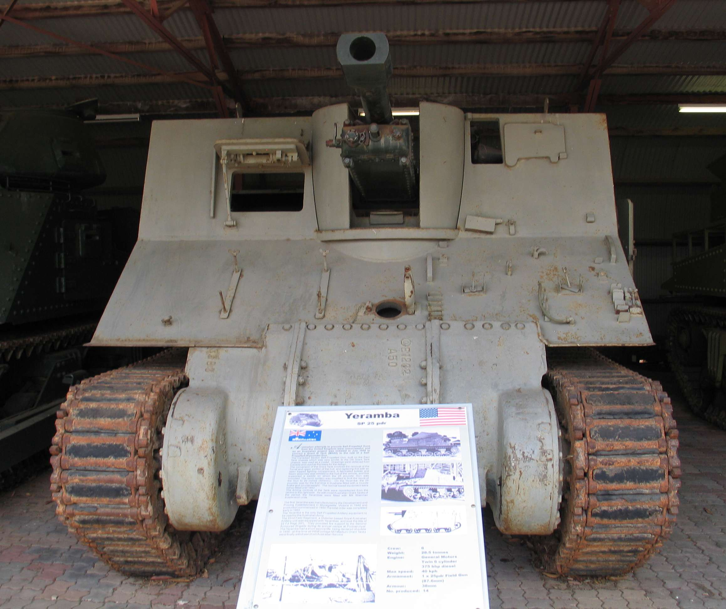 Yeramba SP gun in Royal Australian Armoured Corps Tank Museum, Puckapunyal, Victoria, Australia.